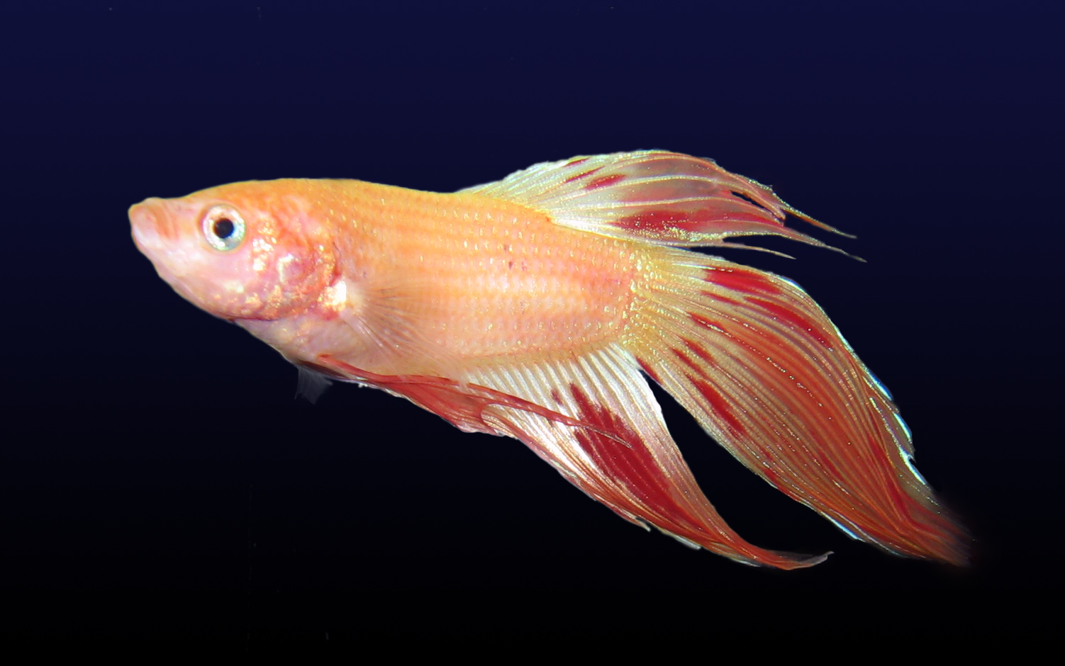 A pale cambodian male Betta (Betta splendens) with red splotches on his fins (weird colour, I've never seen it in another Betta).